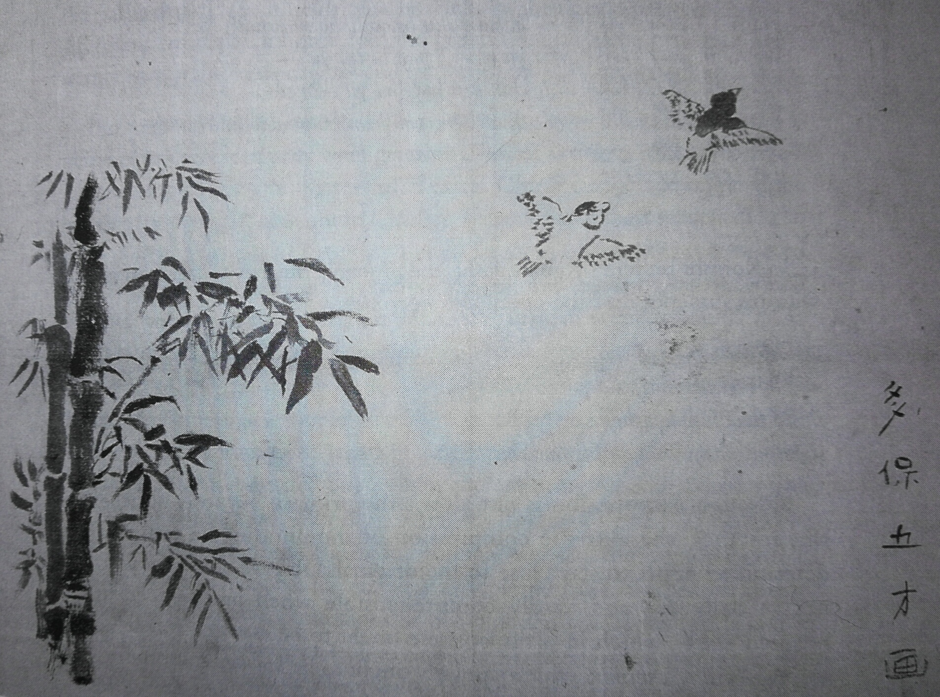 Bambù e passeri. Ema Saikō all'età di 5 anni. Inchiostro su carta, 28x39cm, Ema Shōjirō Collection